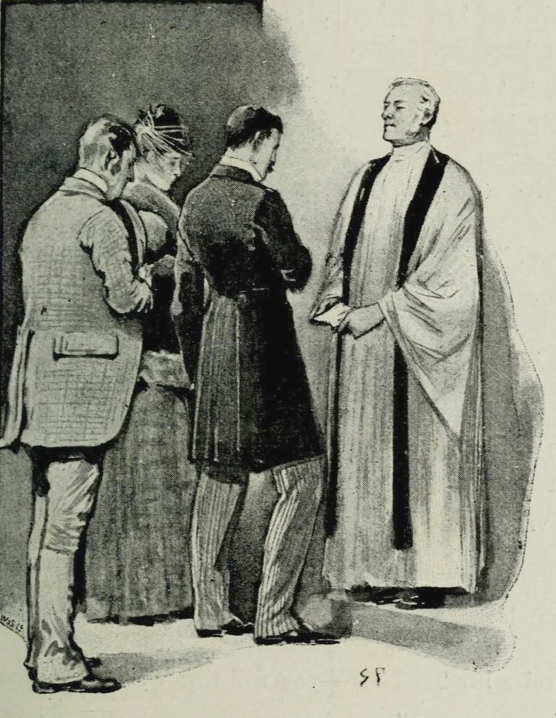 Illustration of the short story A Scandal in Bohemia, which appeared in The Strand Magazine in July, 1891. This illustration appeared on page 69, and is captioned, "I FOUND MYSELF MUMBLING RESPONSES."